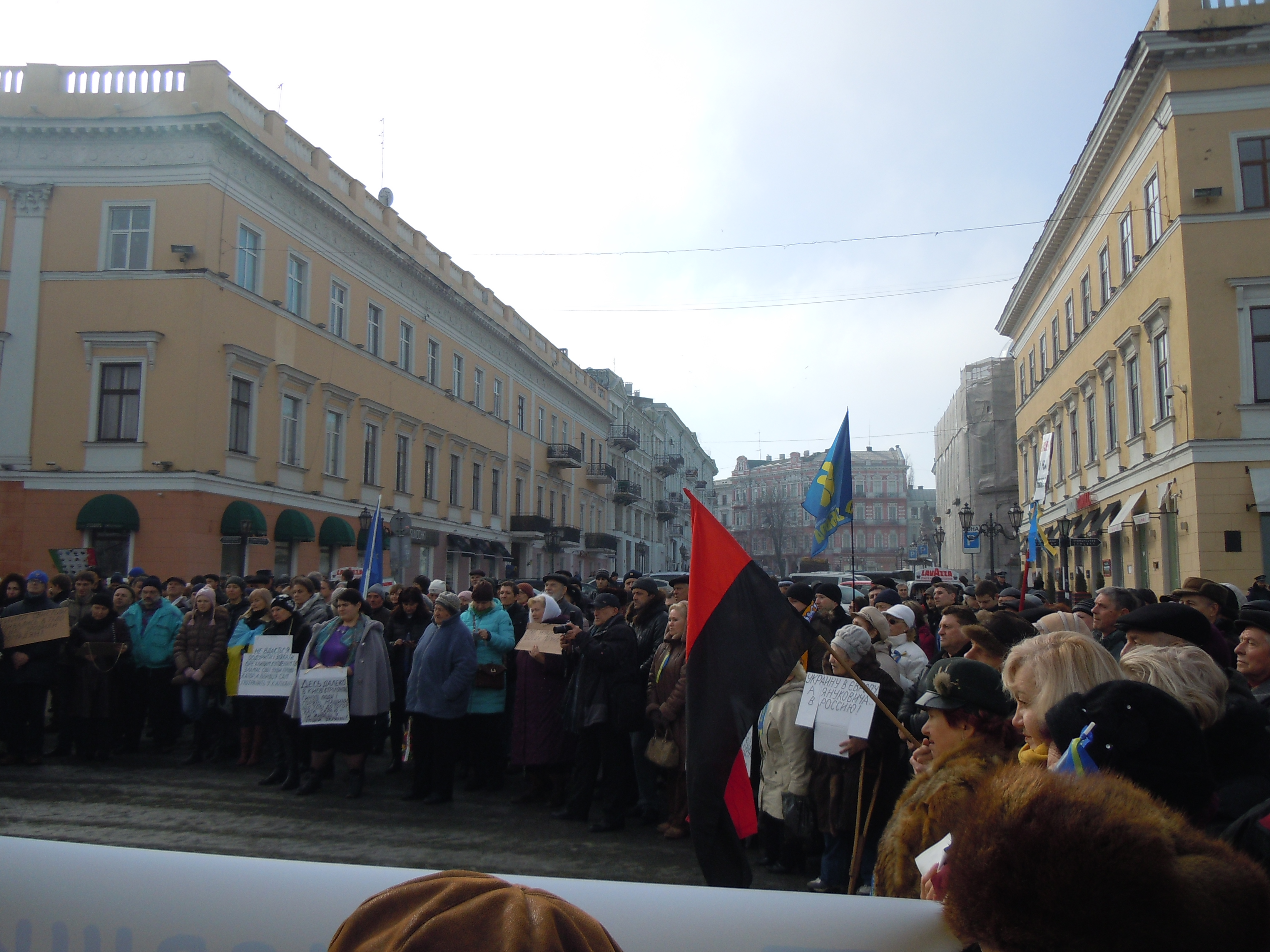 Euromaidan in Odessa, Ukraine